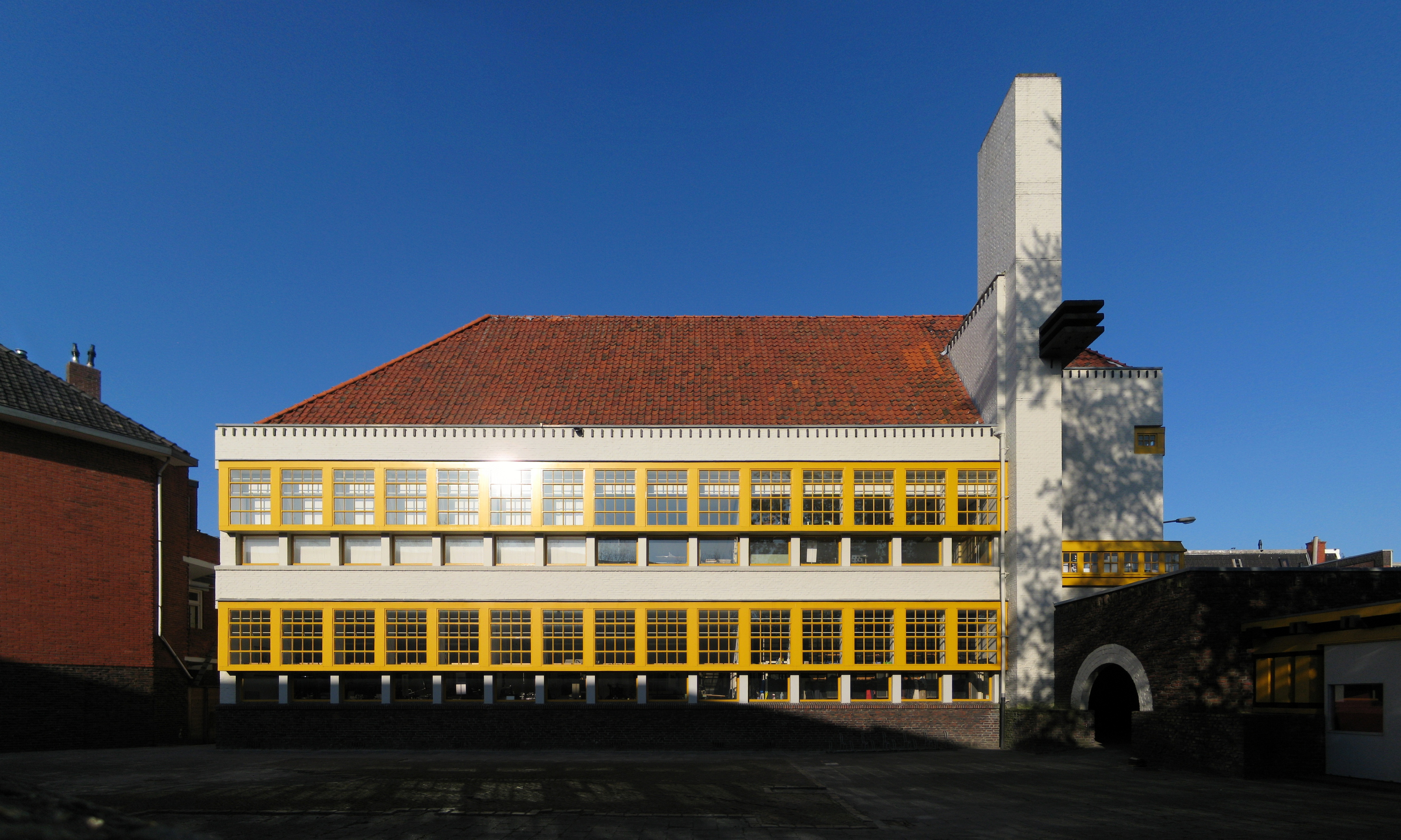 The Grafisch Museum Groningen, a museum in a former school in the Dutch city of Groningen. The building, built in 1928-'29, was designed by the Dutch architect Siebe Jan Bouma.